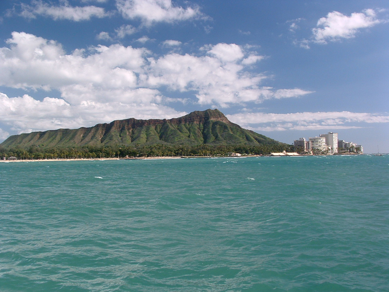 Diamond Head: Diamond Head from the deck of the Mai Tai catamaran.